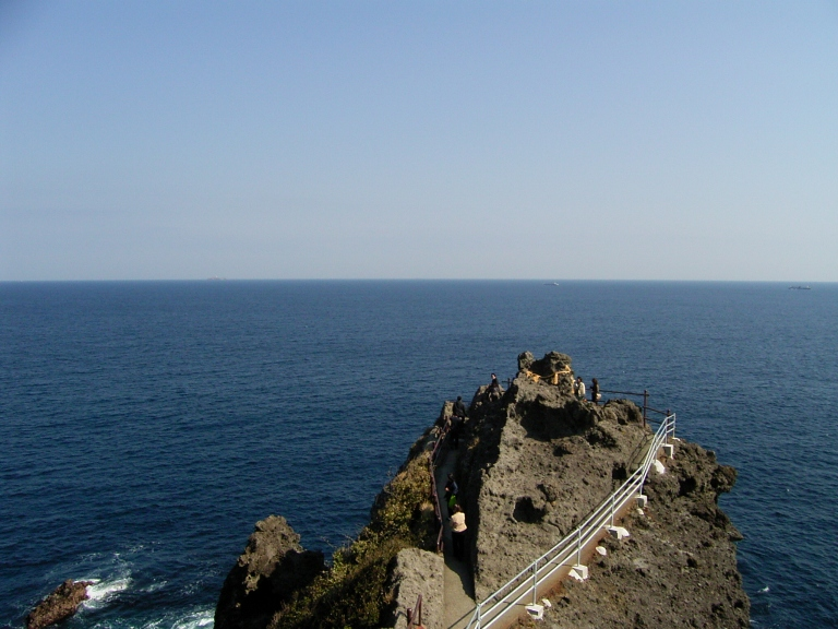 Irozaki, the most south point of Izu. Shizuoka Japan